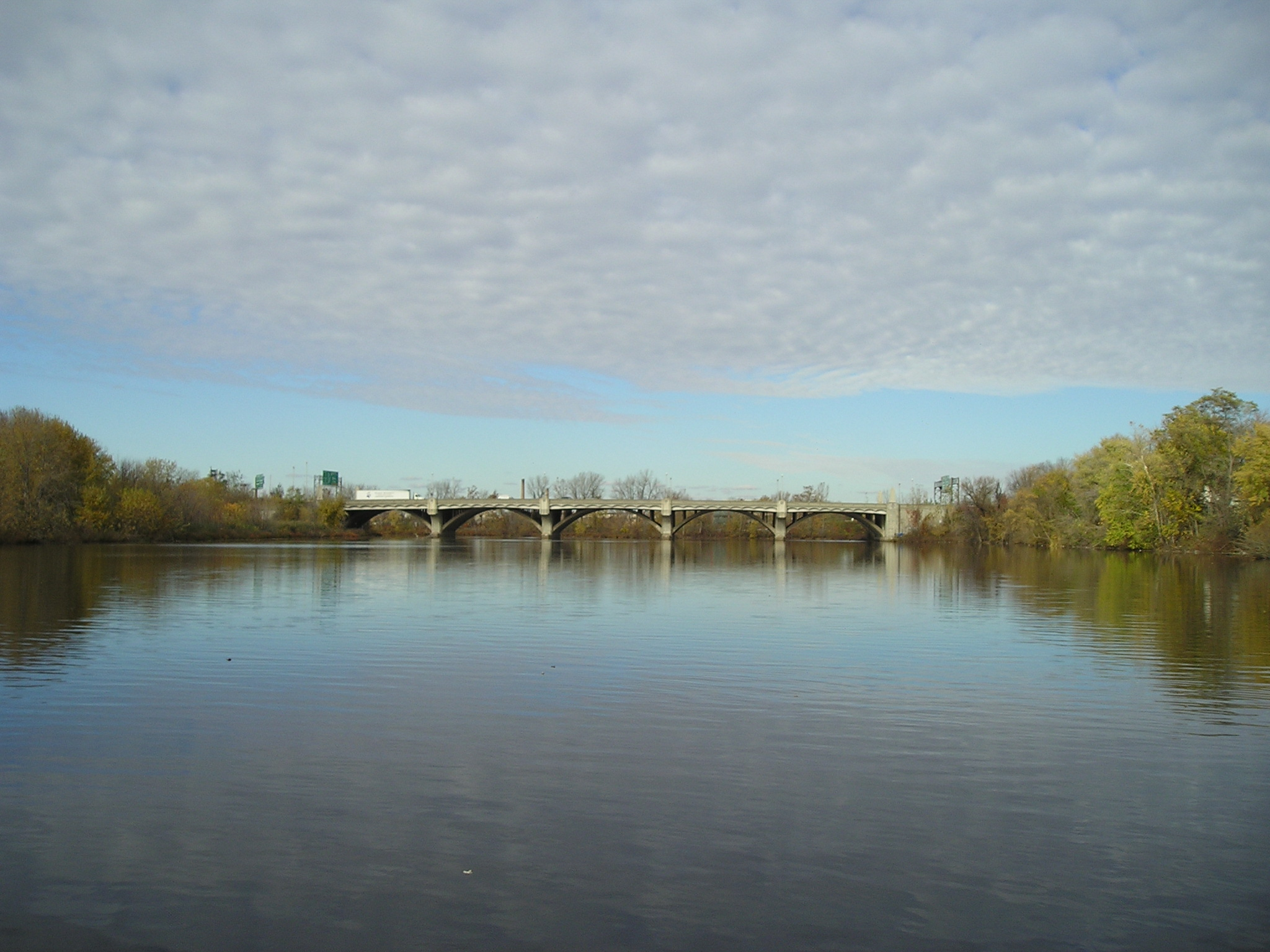 View looking north on the Passaic River from the bow of a boat floating between Clifton (Passaic County) and Elmwood Park (Bergen County). The six lane U.S. Route 46 bridge can be seen in the background.